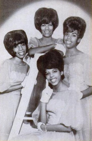 Trade ad for The Royalettes' single "It's Gonna Take a Miracle'". Copyright details There are no copyright markings as can be seen at the full view link. The ad is not covered by any copyrights for Billboard. US Copyright Office page 3-magazines are collective works (PDF) "A notice for the collective work will not serve as the notice for advertisements inserted on behalf of persons other than the copyright owner of the collective work. These advertisements should each bear a separate notice in the name of the copyright owner of the advertisement."